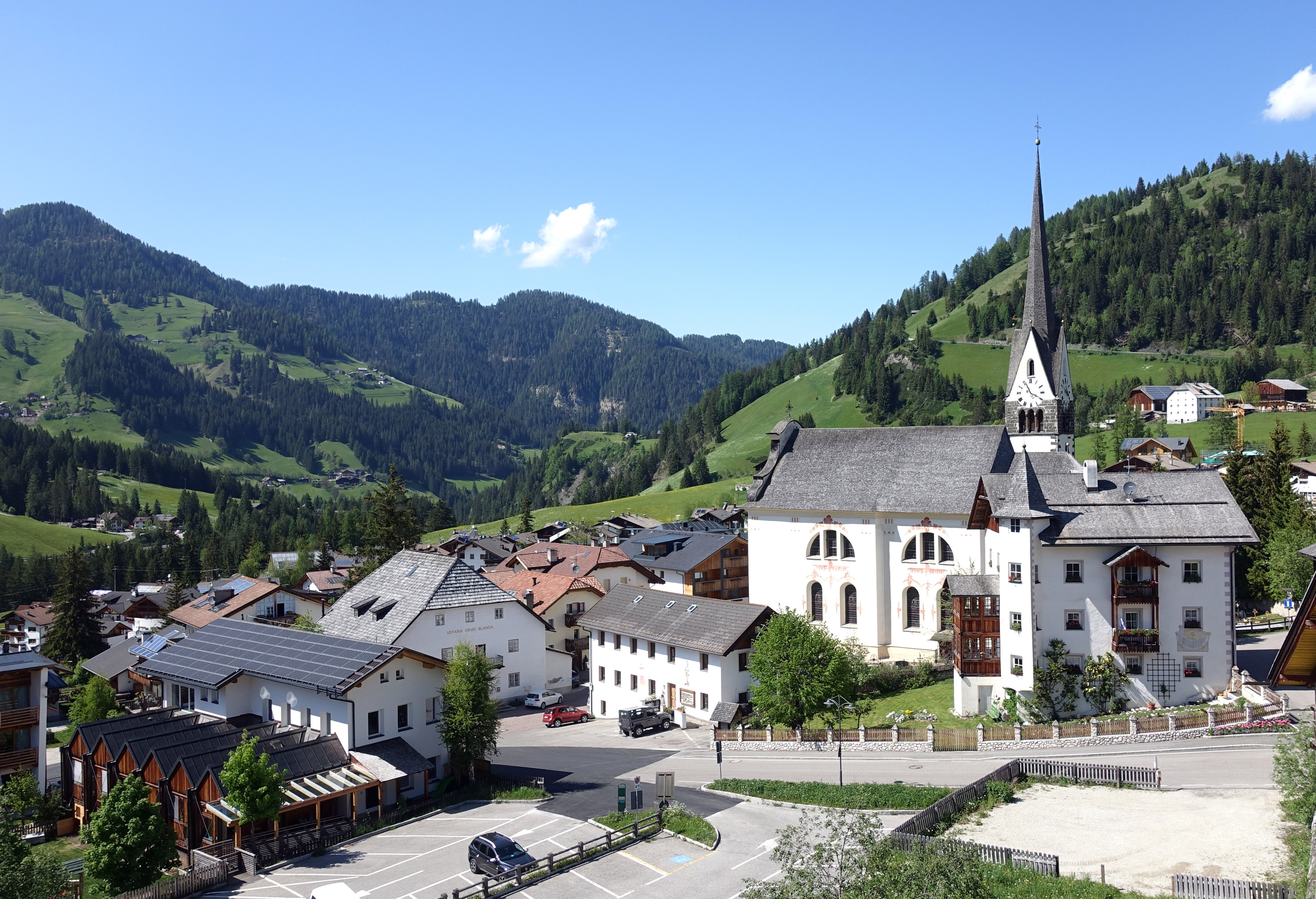 San Linêrt subdivision in Badia, Italy.